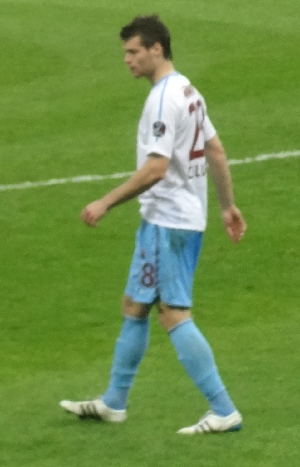 CElustka playing against GS